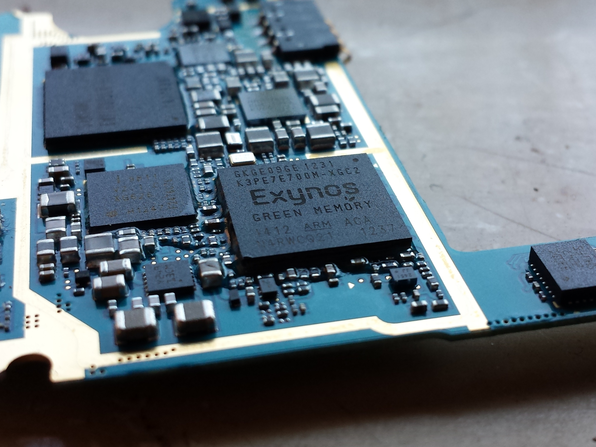 Samsung Exynos 4 Quad (also known as Exynos 4412) SoC used in the Samsung Galaxy S3 I9300 smartphone.